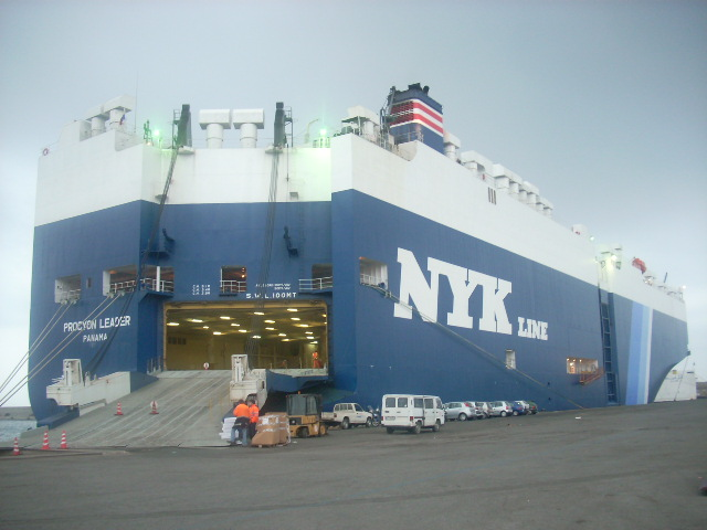 PROCYON LEADER